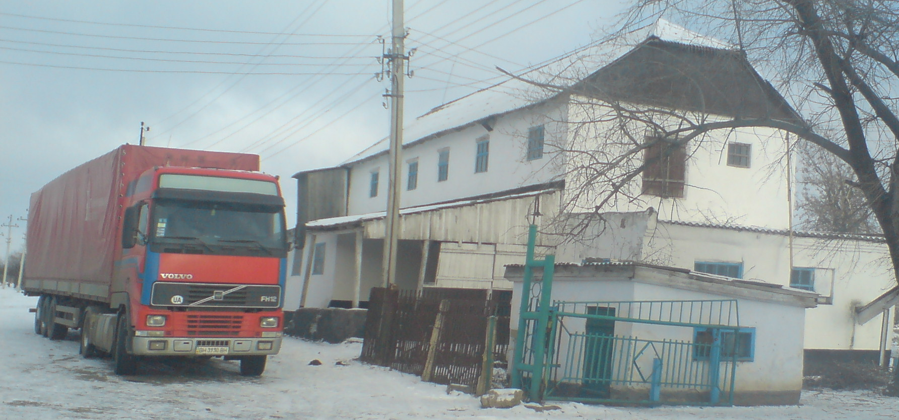 Korolyova, Zatyshshia